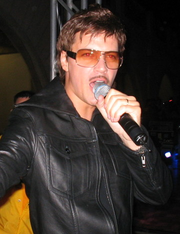 Gunther performing at University of California, Santa Barbara